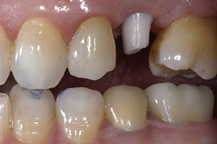 Picture of a ceramic abutment